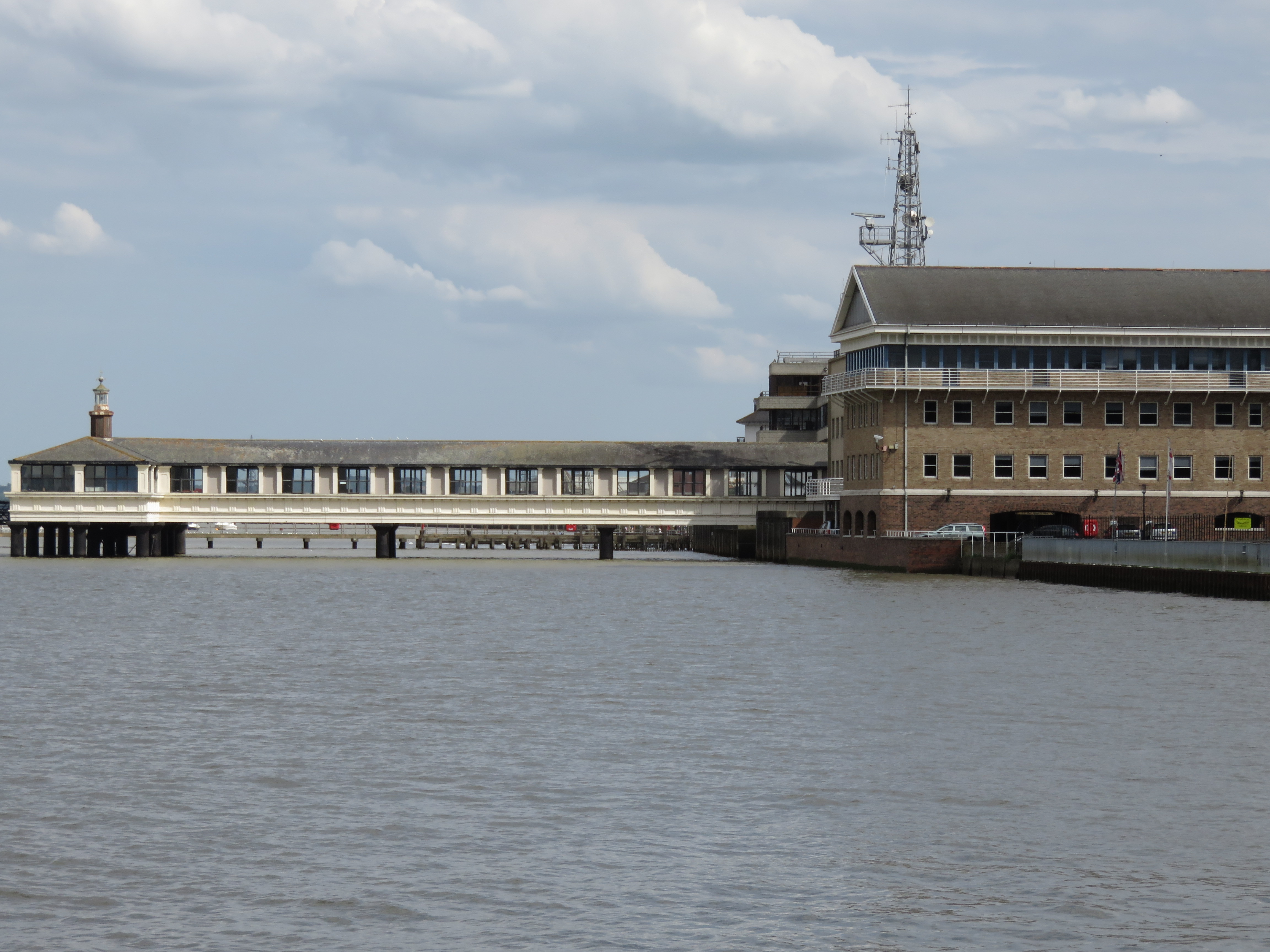 The busy but splendid Royal Terrace Pier in Milton, Gravesend, is in constant Port of London Authority (PLA) use, 24 hours a day and 7 days a week.